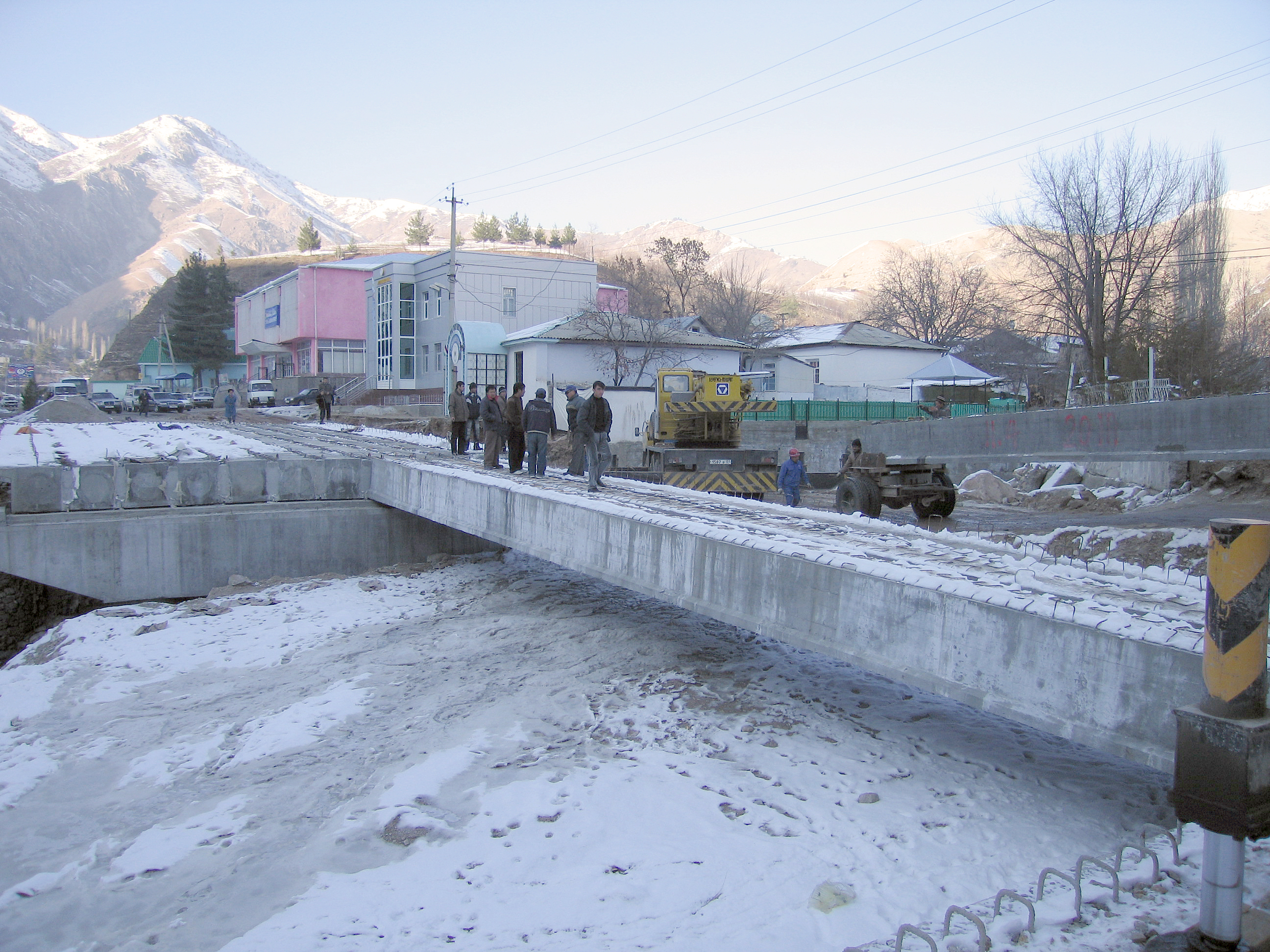 A bridge being built as part of the widening and improvement of the road between Dushanbe and Khujand in Tajikistan using Chinese labor and equipment.